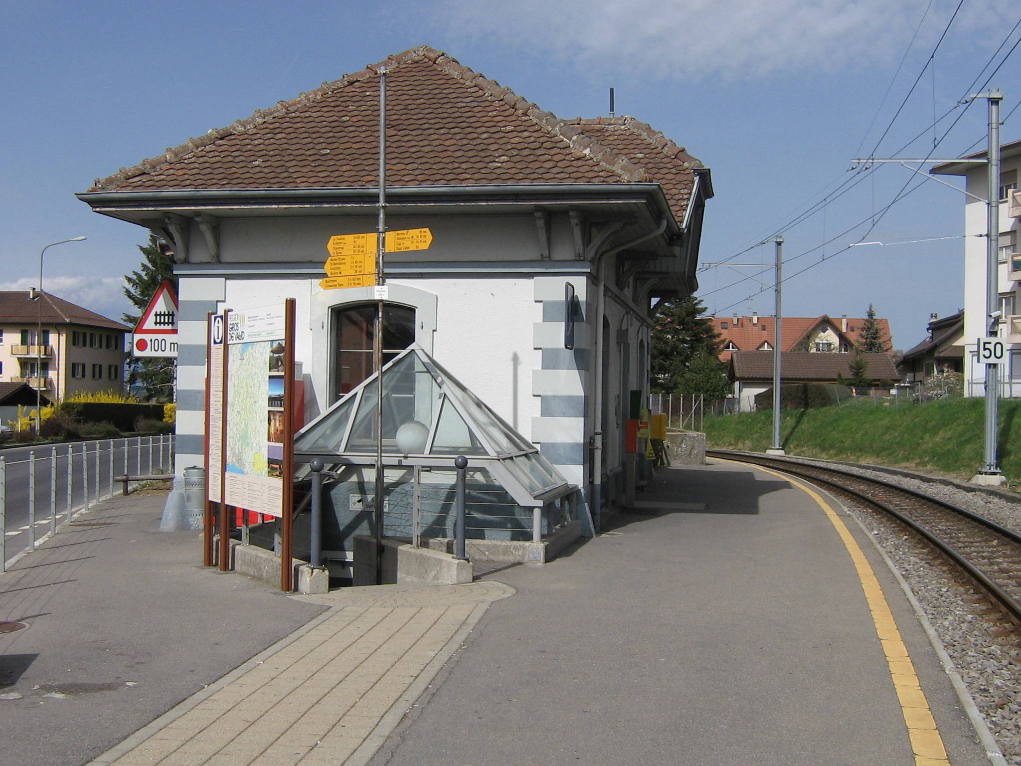 Global view of the railway station of Étagnières.